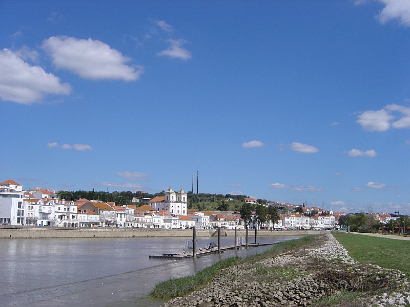 East side view, Alcácer do Sal, Alentejo, Portugal